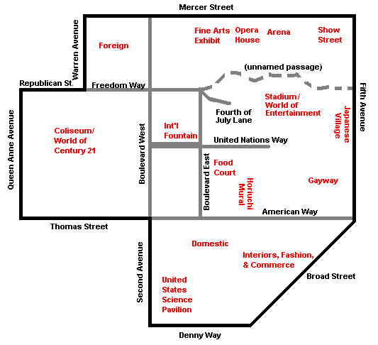 Map of major features of Century 21 Exposition (1962; later Seattle Center). Based on maps of Seattle and on map of the exposition grounds in Official Guide Book: Seattle World's Fair 1962, Acme: Seattle (1962), p. 4–5.